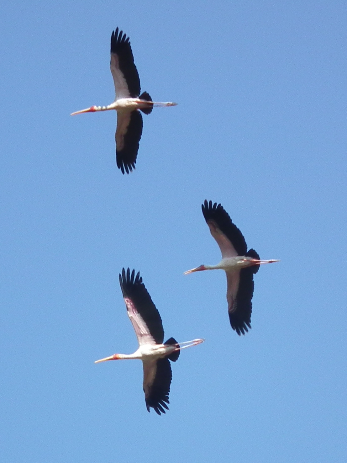 Yellow-billed Stork, Mycteria ibis. Tanzania